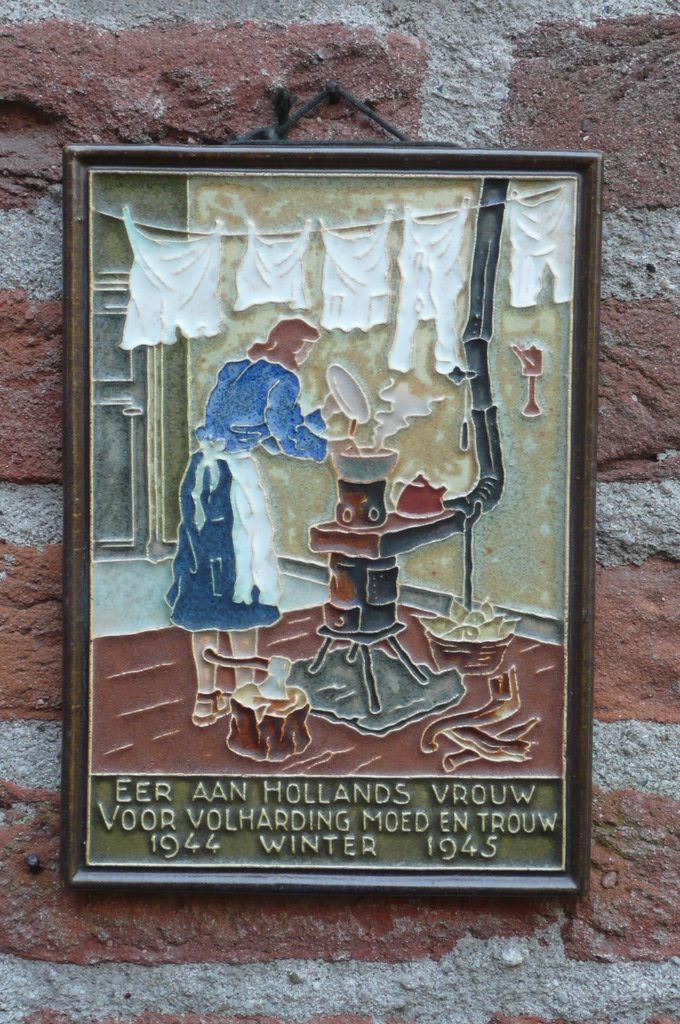 In the winter of 1944/1945 (the end of World War II) there was practically no food left in the Netherlands. The winter is known as the 'winter of hunger'. This tile is a tribute to Dutch women who were able to make something out of nothing. The tile reads: "We honour the Dutch wives for persistence and courage during the winter of 44 and 45". The tile was made by 'De Porceleyne Fles' in Delft, Netherlands